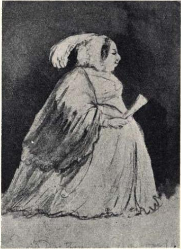 Queen dowager Desirée Clary of Sweden. Caricature by Fritz von Dardel.